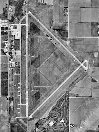 USGS digital orthophoto of Central Nebraska Regional Airport, formerly Grand Island Army Airfield (AAF), in Grand Island, Hall County, Nebraska, United States.